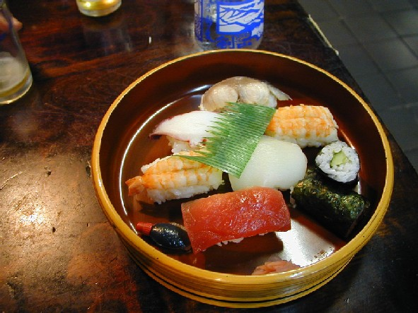 Sushi; picture taken at Kotohira (Japan)